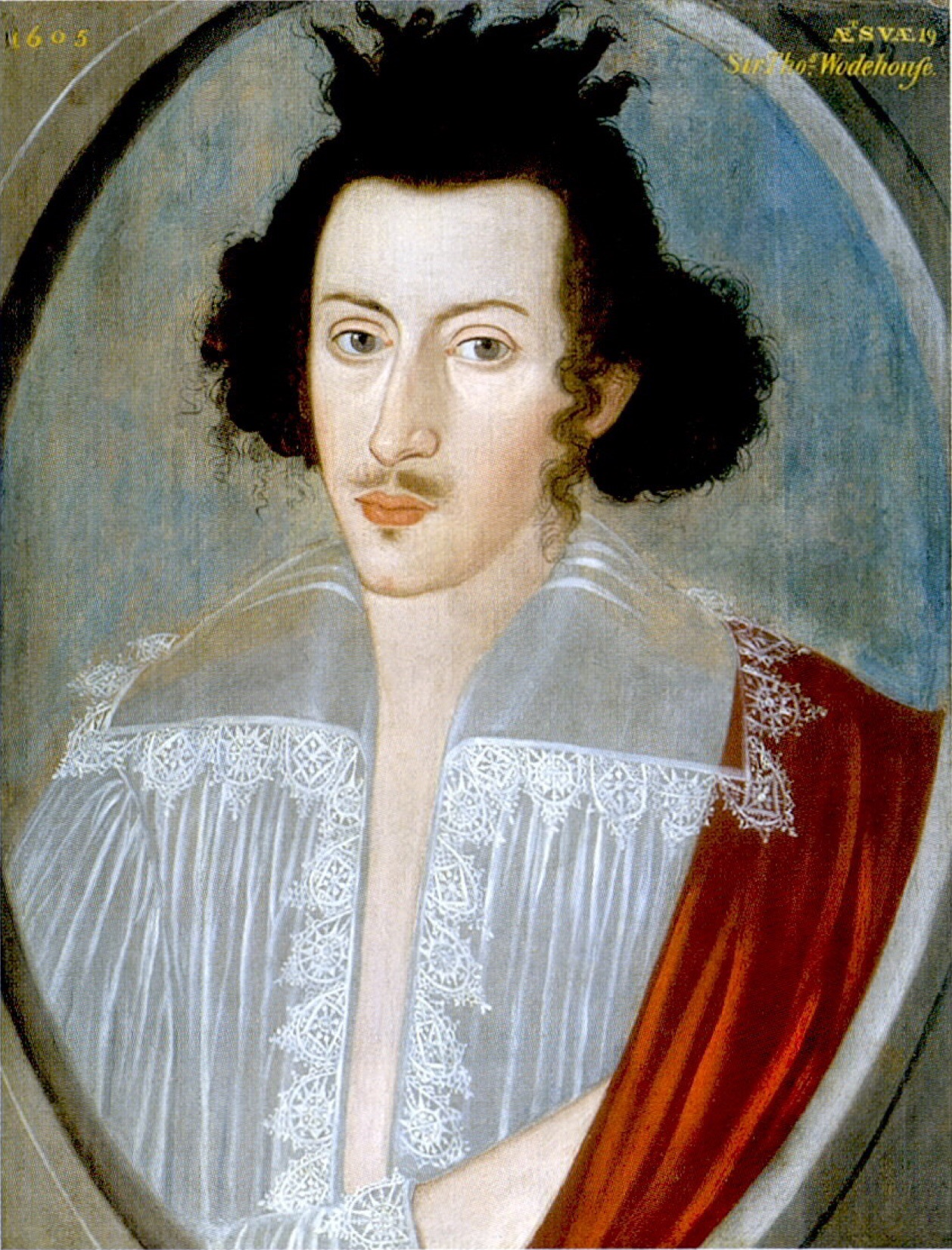 Portrait of Sir Thomas Wodehouse, 2nd Baronet of Kimberley, Norfolk, aged 19.